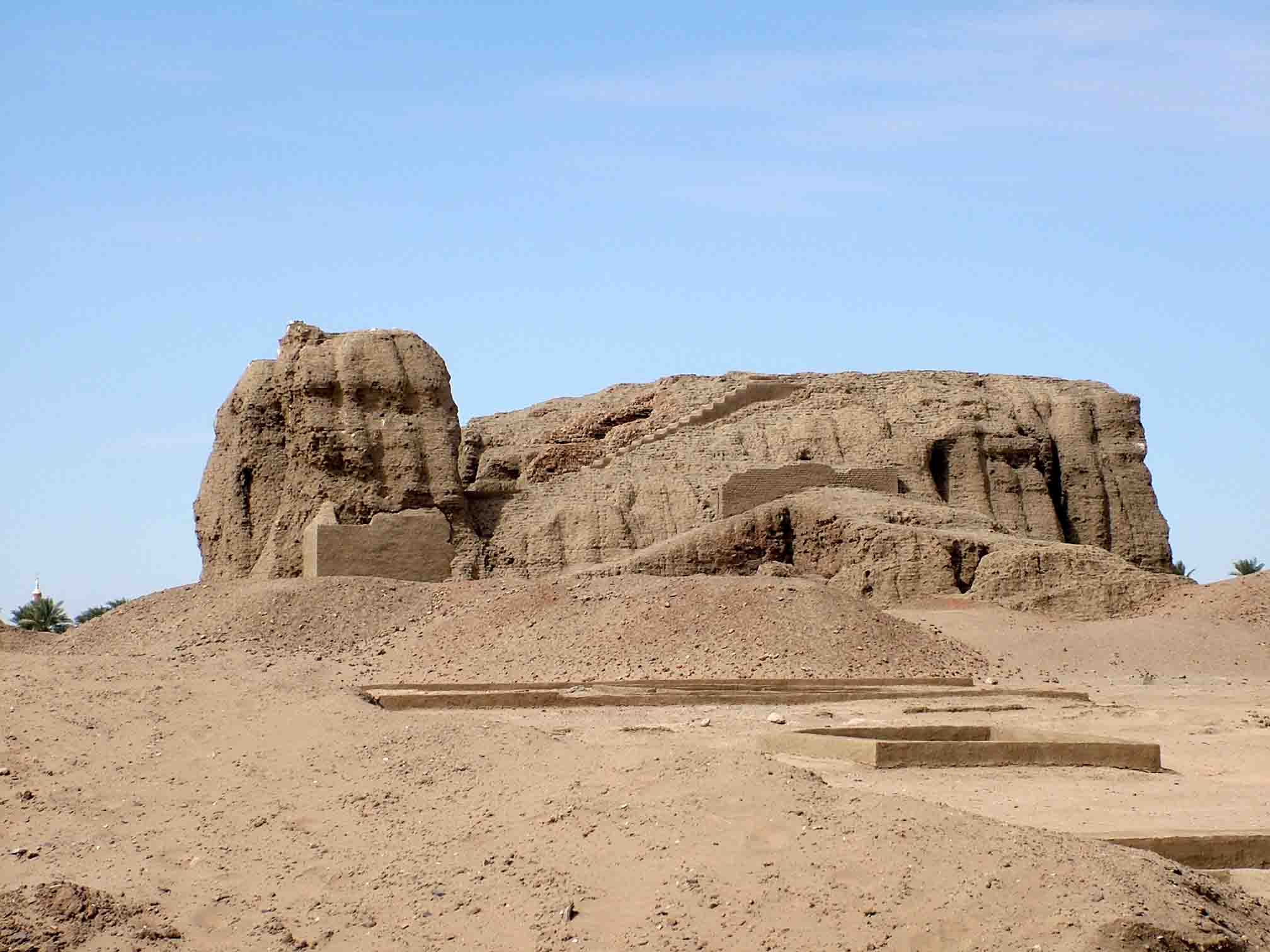 Western Deffufa in ancient city Kerma, Nubia, Sudan